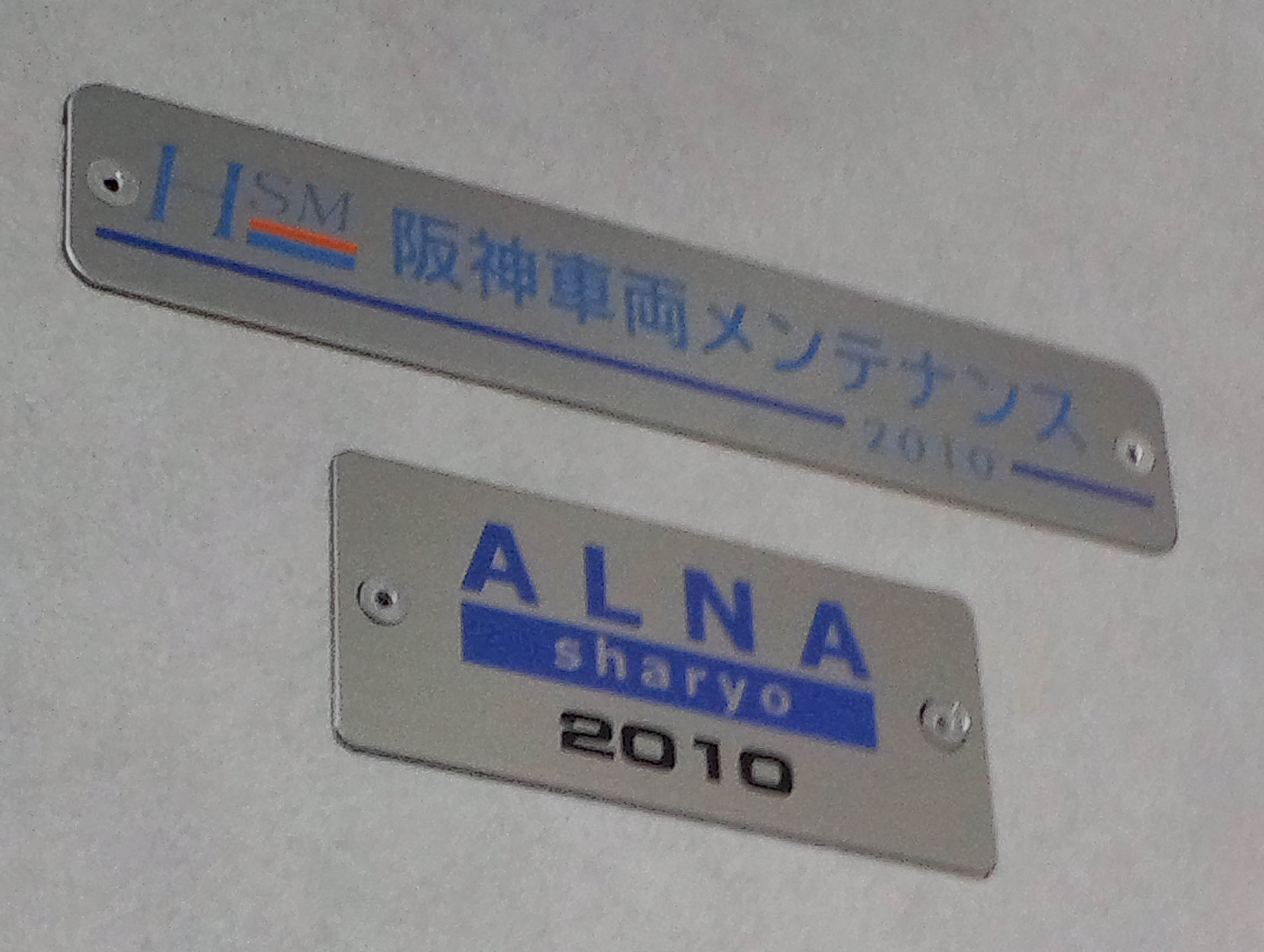 5550 maker plate